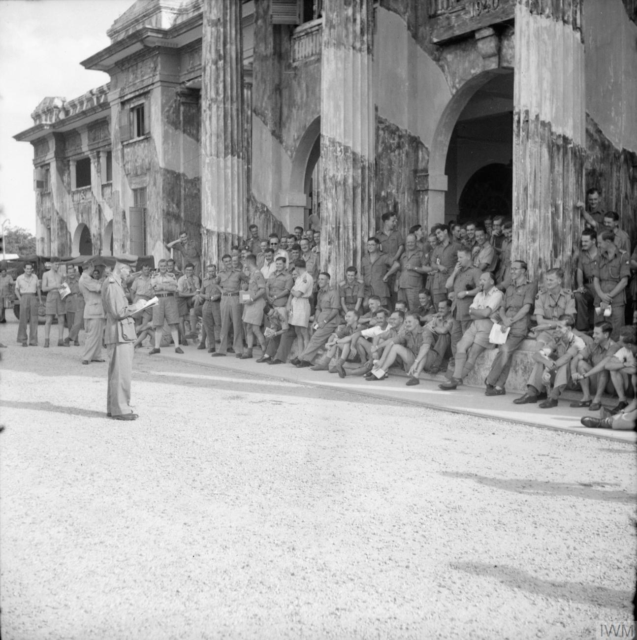 Demobilization of British Service Personnel in the Far East Roll call parade at No.1 British Transit Camp, Nee Soon, Singapore, for officers departing for the United Kingdom.